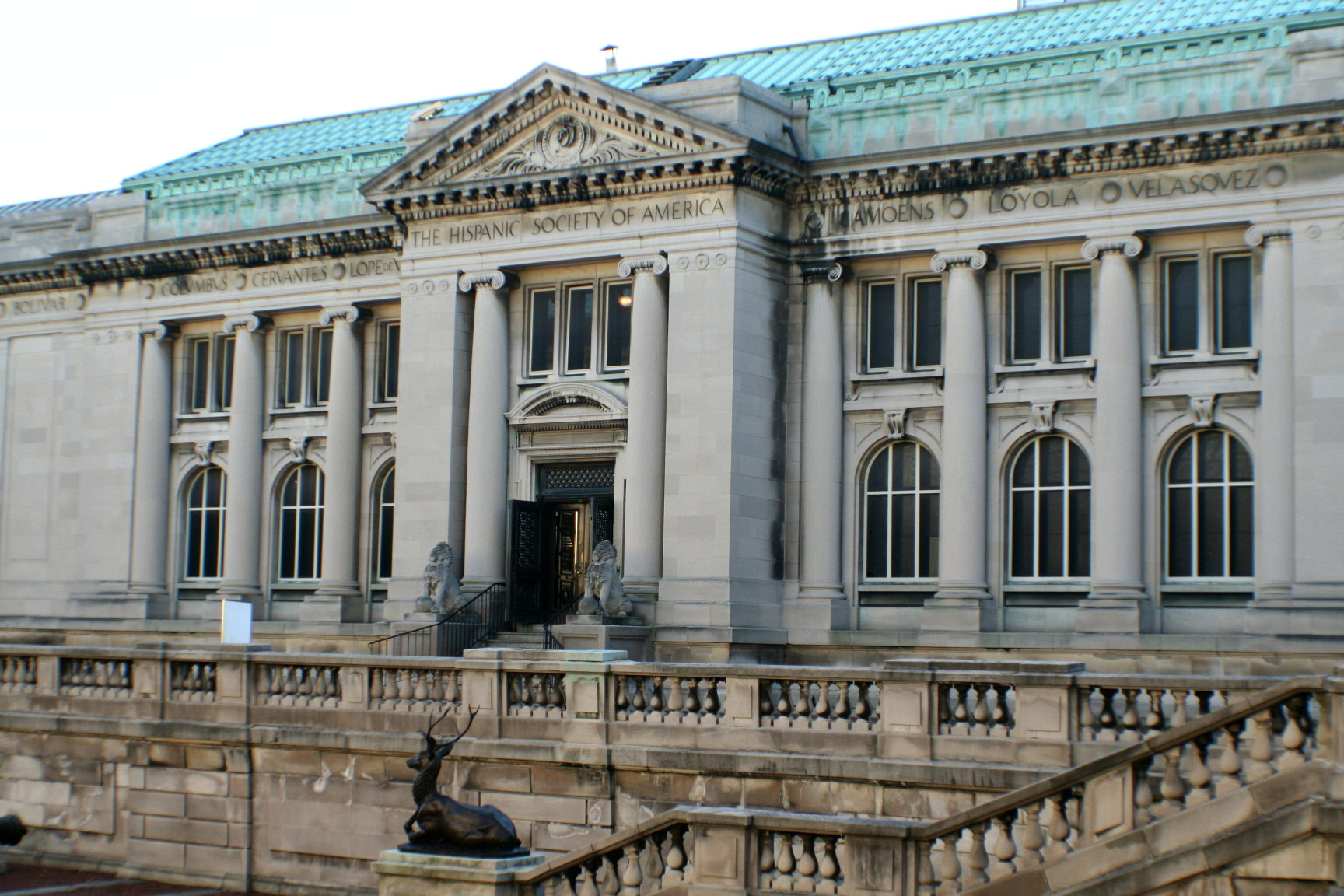 Campus of the Hispanic Society of America on the Audubon Terrace in Washington Heights, New York City.